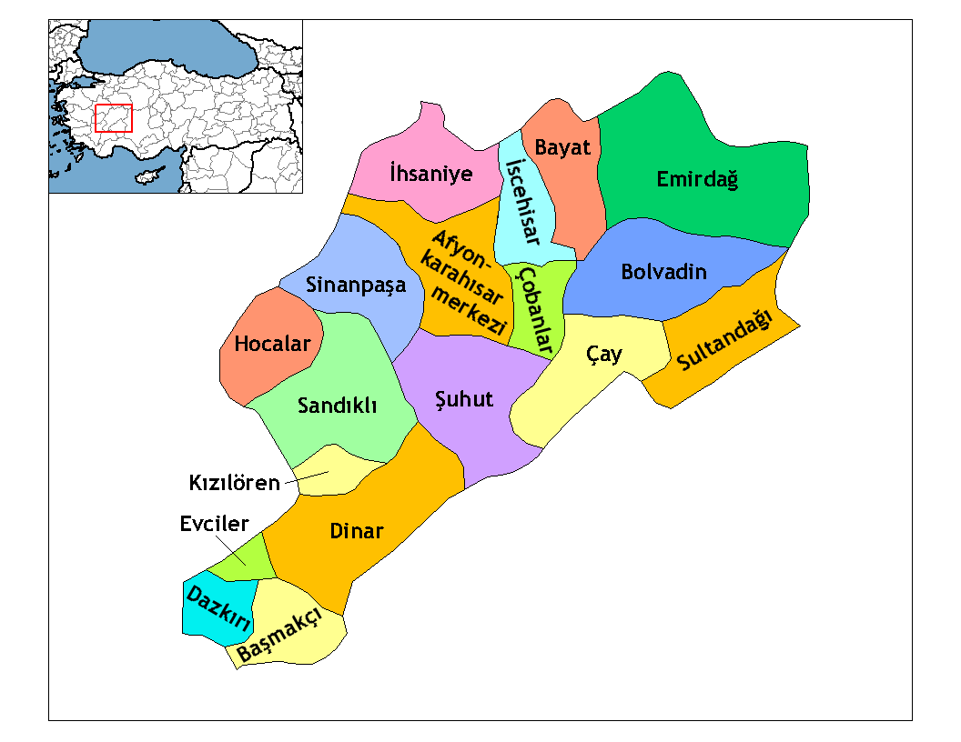 Map of the districts of Afyonkarahisar province in Turkey. Created by Rarelibra 16:20, 1 December 2006 (UTC) for public domain use, using MapInfo Professional v8.5 and various mapping resources. Edited by One Homo Sapiens Corrected text where İ,Ş,ı,ğ,or ş occurs in name. Source: [statoids-com]. Increased font size and enhanced color differences among adjacent districts. New district Hocalar added, additional source: Afyon Valiliği [afyonkarahisar-gov-tr].